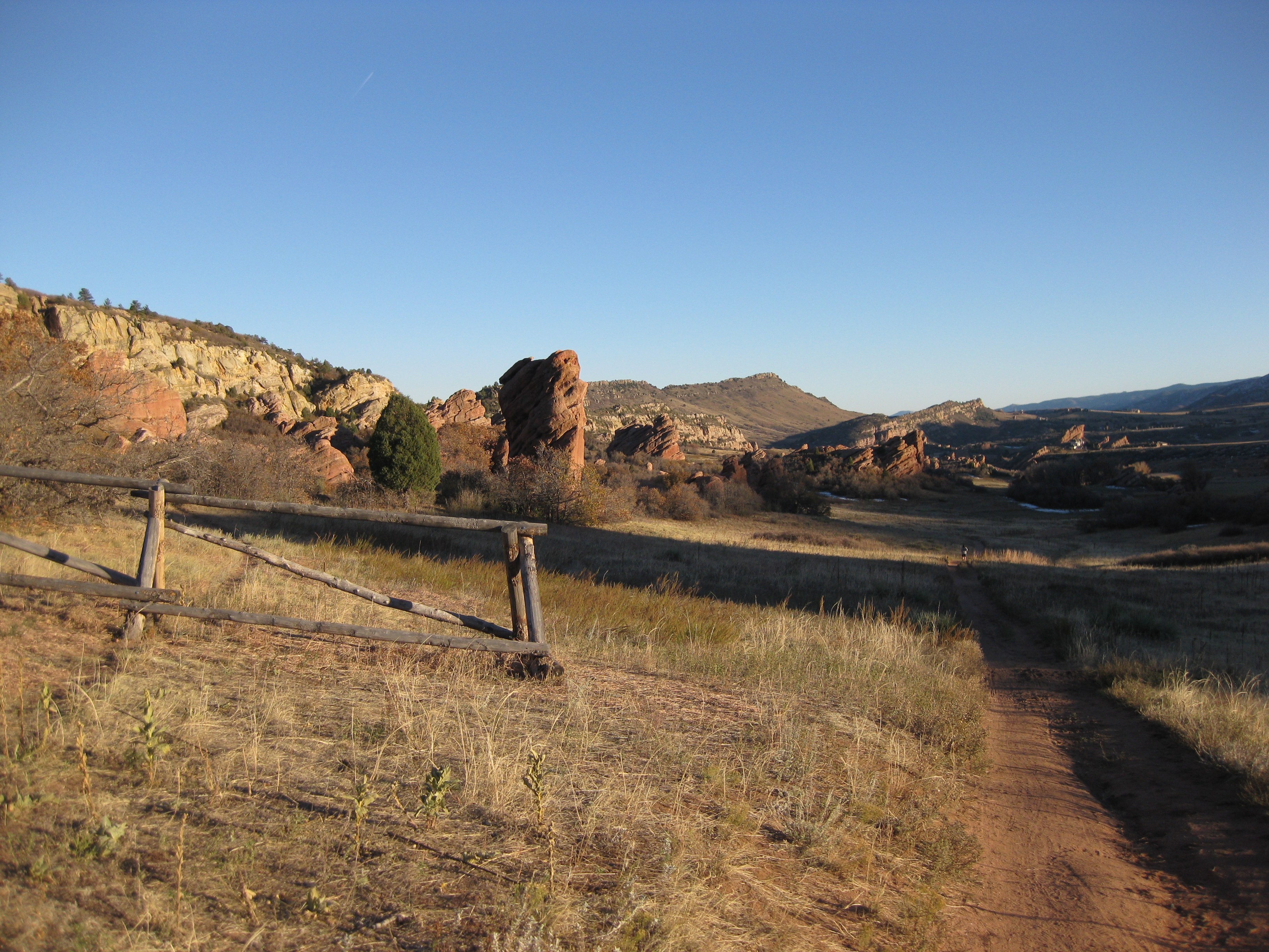 Looking southeast along Coyote Song Trail in South Valley Park, Jefferson County, Colorado, U.S.A.